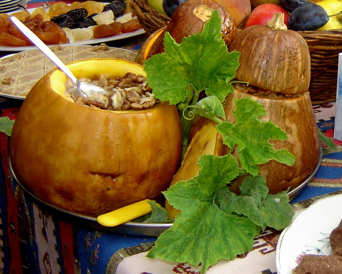 Gհapama: Armenian dish made with baked pumpkin stuffed with rice, nuts, and dried fruits